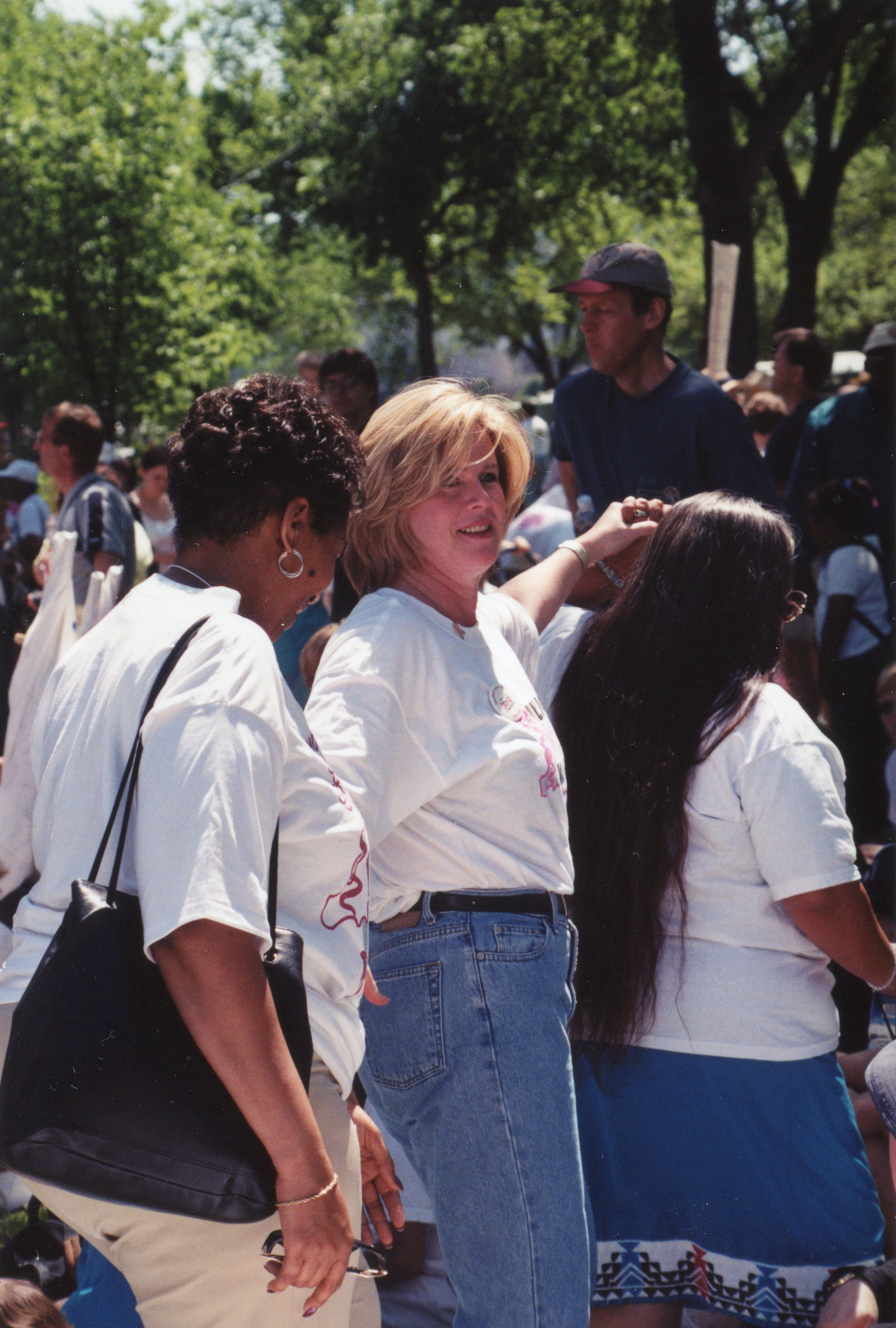 MILLION MOM MARCH on the National Mall in Washington DC on Sunday, 14 May 2000 by Elvert Barnes Photography Second Lady, Tipper Gore, Wife of Vice President Al Gore MILLION MOM MARCH at Wikipedia at Elvert Barnes GUN CONTROL PROTESTS ongoing project at